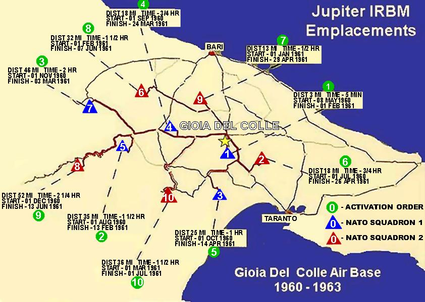 Jupiter IRBM deployment locations in Italy